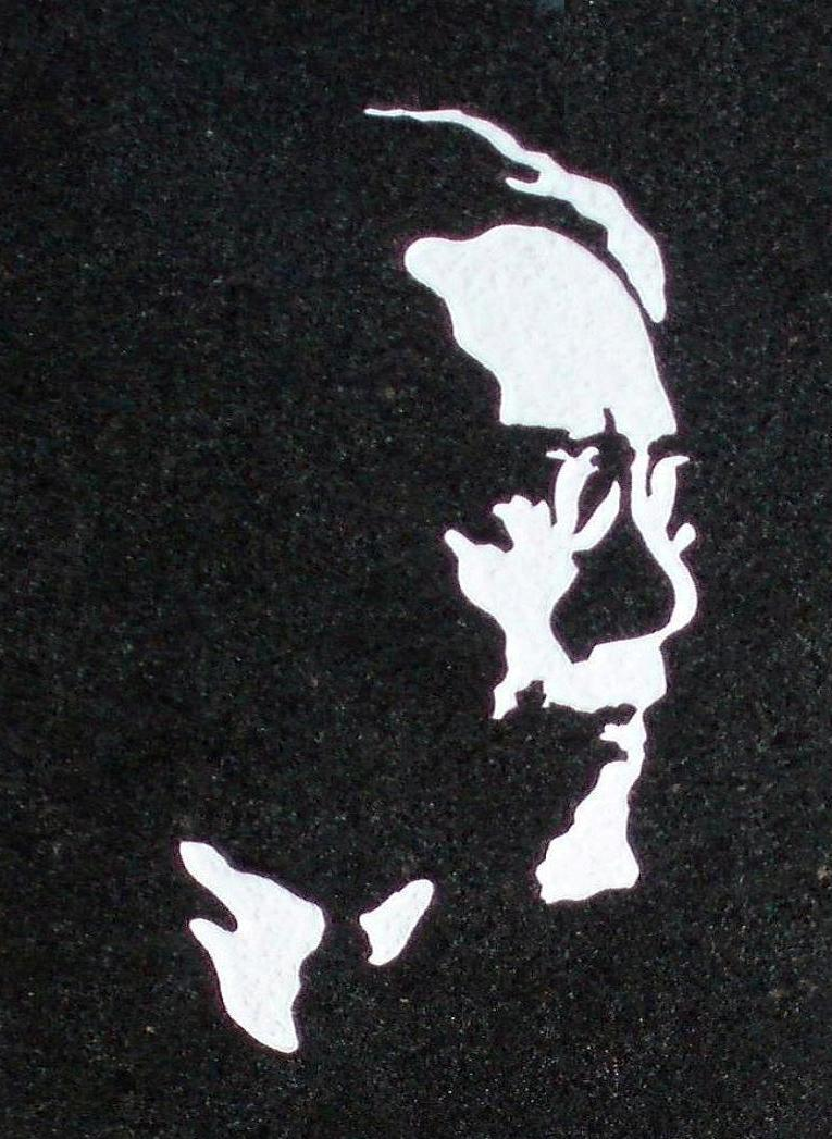 Memorial stone of the danish writer Johannes Jørgensen in Svendborg: portrait